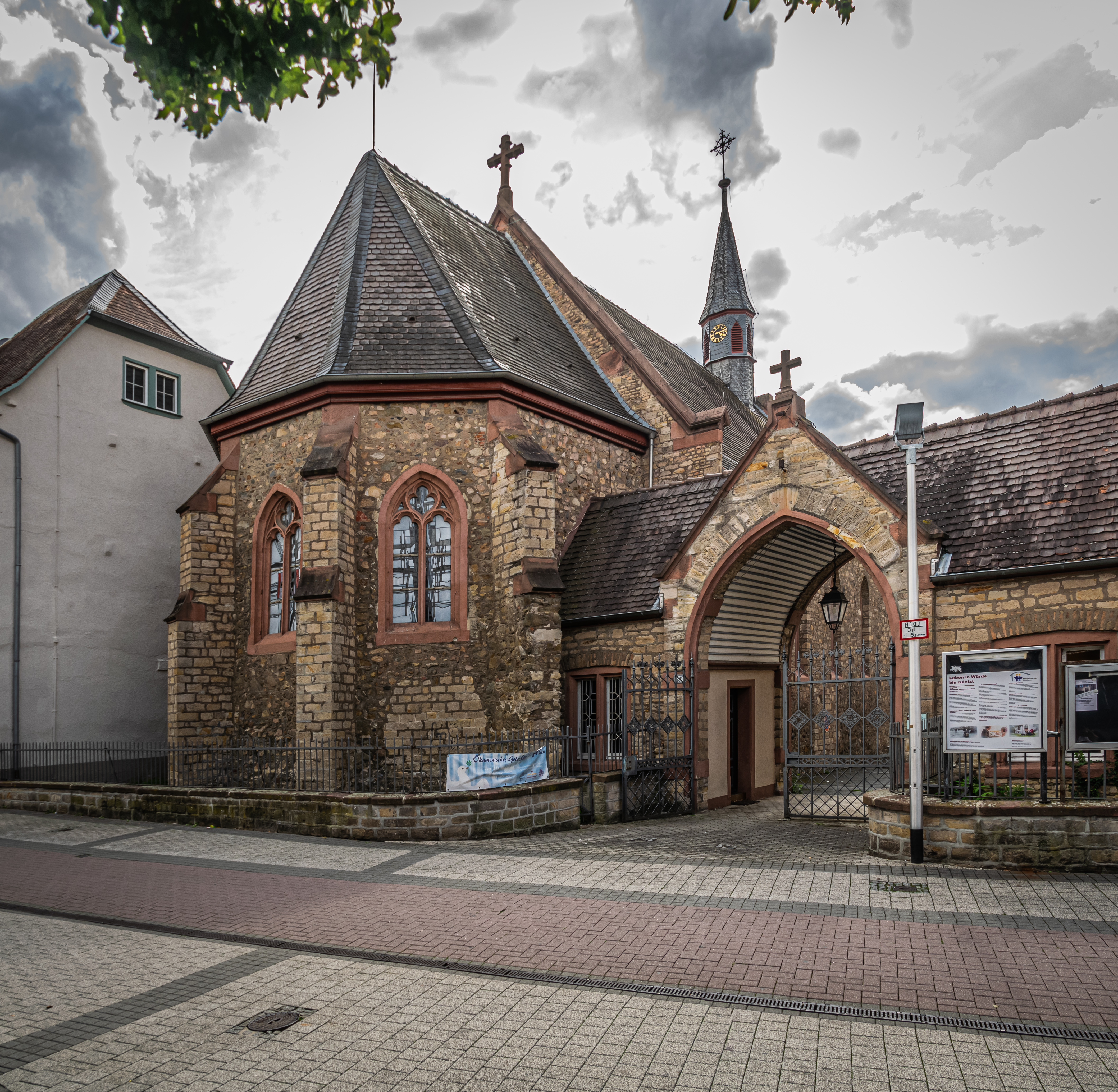 Hospital church in Bensheim, Hesse, Germany